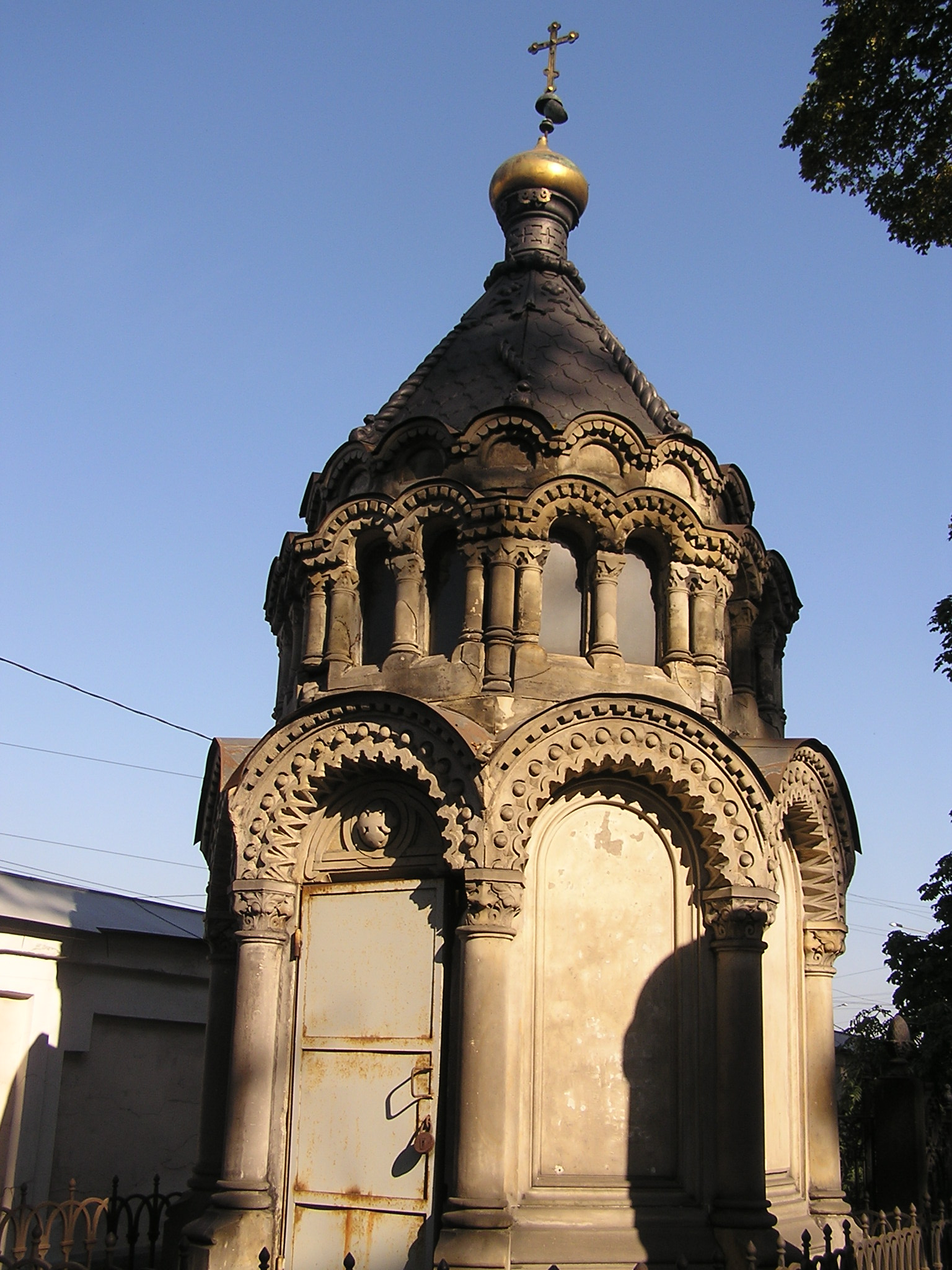 Lazarev Cemetery